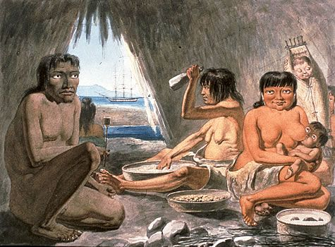 Everyday scene at Rumiantsev Bay (Bodega Bay), 1818; watercolor by Russian artist Mikhail Tikhanov. Also titled Mikhail Tikhanov, [Coast Miwok] Inhabitants of Rumyantsev [Bodega] Bay in New Albion, 1818, watercolor and pencil. Courtesy of the Scientific Research Museum of the Russian Academy of Fine Arts, St. Petersburg, no. P-2090. The caption adds, “ The woman is pounding kernels plucked from wild rye.” The three-masted sloop-of-war Kamchatka, which is visible through the dwelling's entrance.